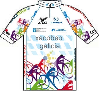 Xacobeo Galicia cycling shirt